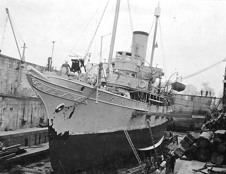 Photo #: NH 42430 USS Vedette (SP-163) In dry dock at L'Orient, France, circa 1917-1918. Built in 1899 under the name Virginia, the steam yacht Vedette was leased by the Navy on 4 May 1917 and placed in commission on the 28th of that month. On 4 February 1919, following World War I service in the eastern Atlantic, she was returned to her owner, Frederick W. Vanderbilt of New York City.